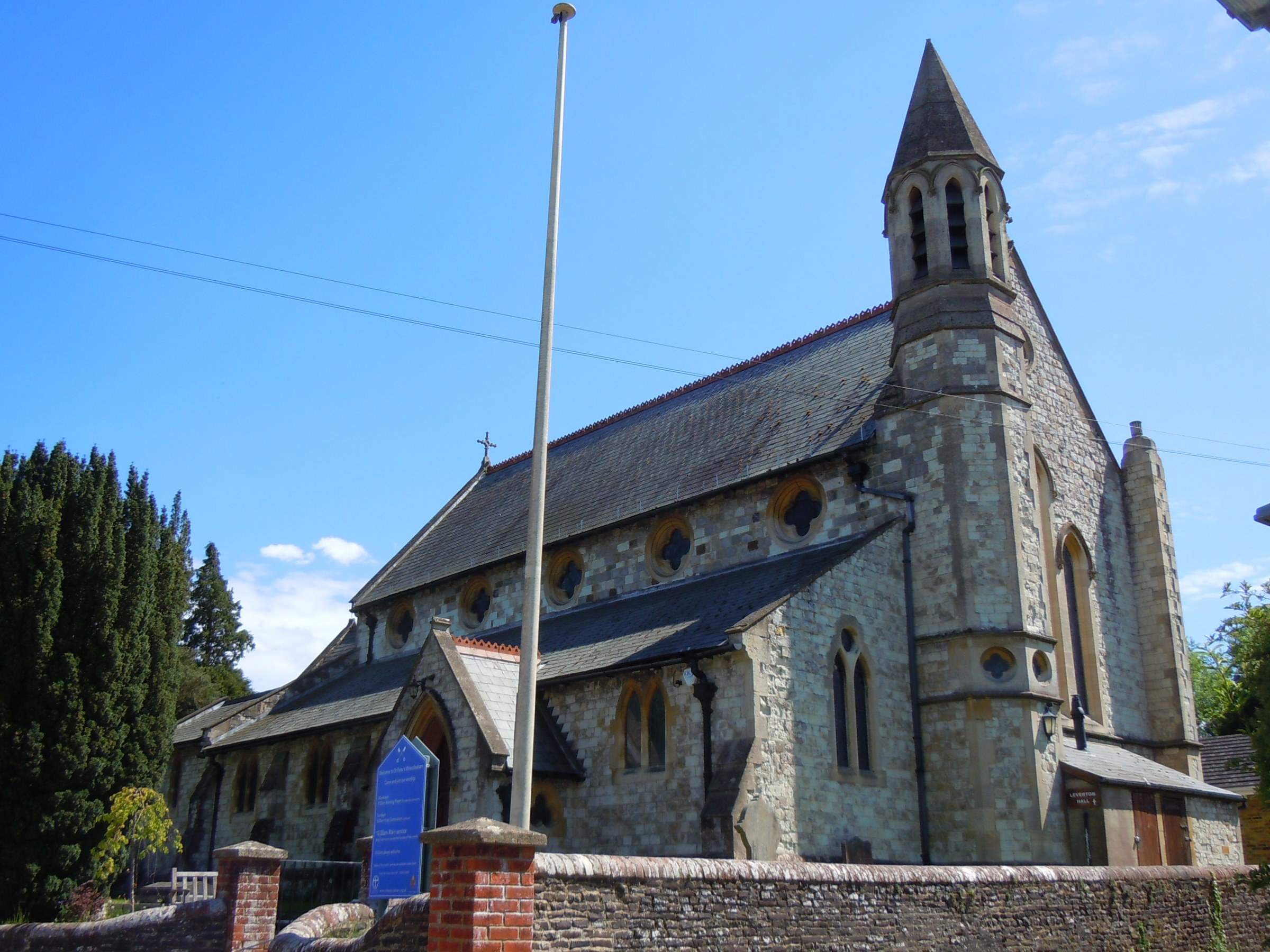 St Peter's Church, Beales Lane, Wrecclesham, Borough of Waverley, Surrey, England.